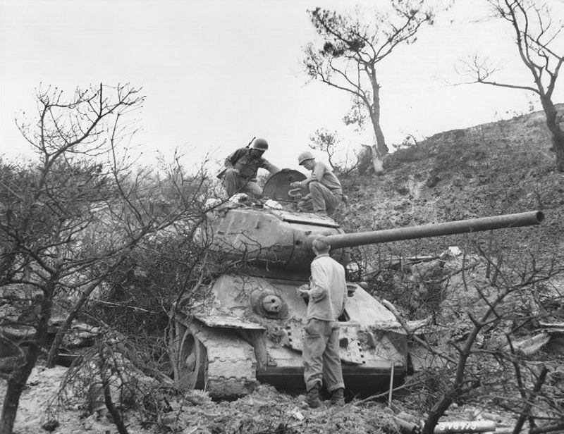 Description: PFC Walter Smith, Corrigan, Tex; PFC Robert McMahan, Springfield, Tenn; and CPL Hubert Hightower, Rome, Ga (L-R), all of the 5th Cavalry Regt, examine a T-34/85 tank captured from the Communist led North Korean forces, Waegwan, Korea.